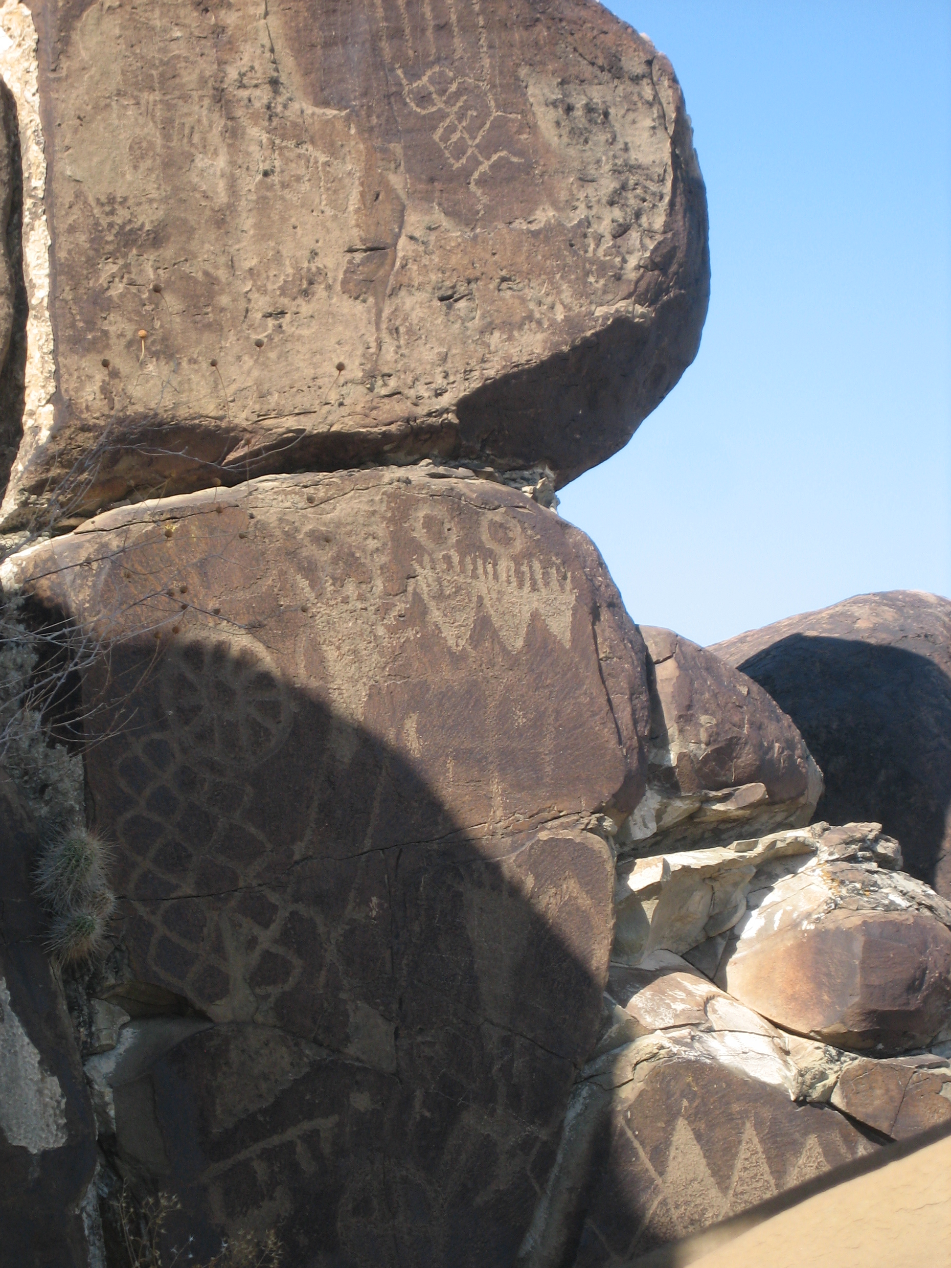 Petroglyphs outside of Parras, Coahuila, Mexico